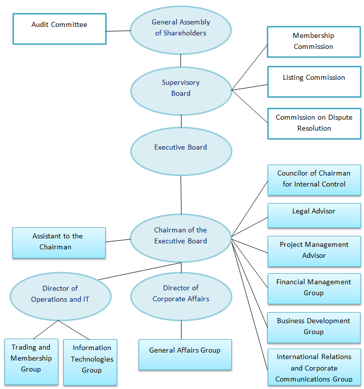 Organizational structure of BSE extracted from